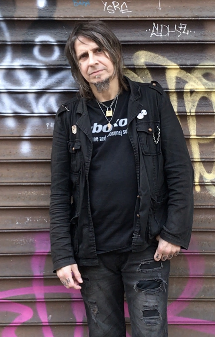 Mike IX Williams, Boston MA, July 4 2019